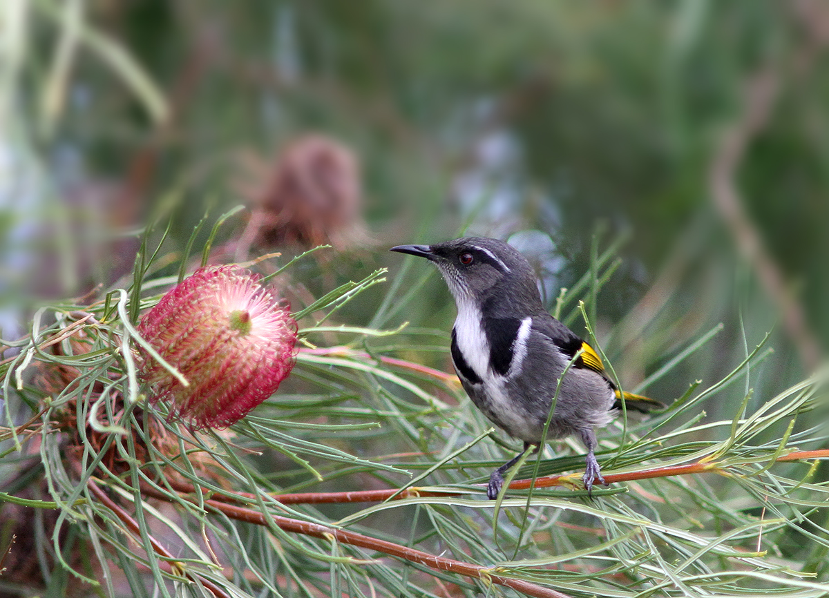 Crescent Honeyeater (Phylidonyris pyrrhopterus) - Central North Coast, Tasmania.